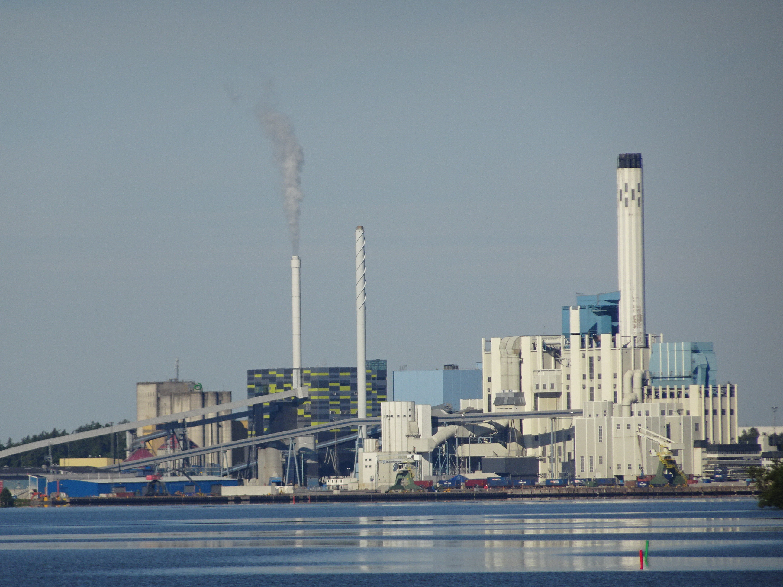 Västerås cogeneration plant. Unit 6 (incineration plant) is in operation. Unit 6 togs started in 2014. Västerås Sweden